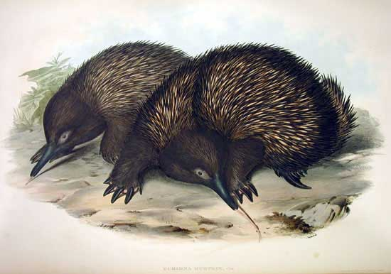 Tachyglossus aculeatus by John Gould